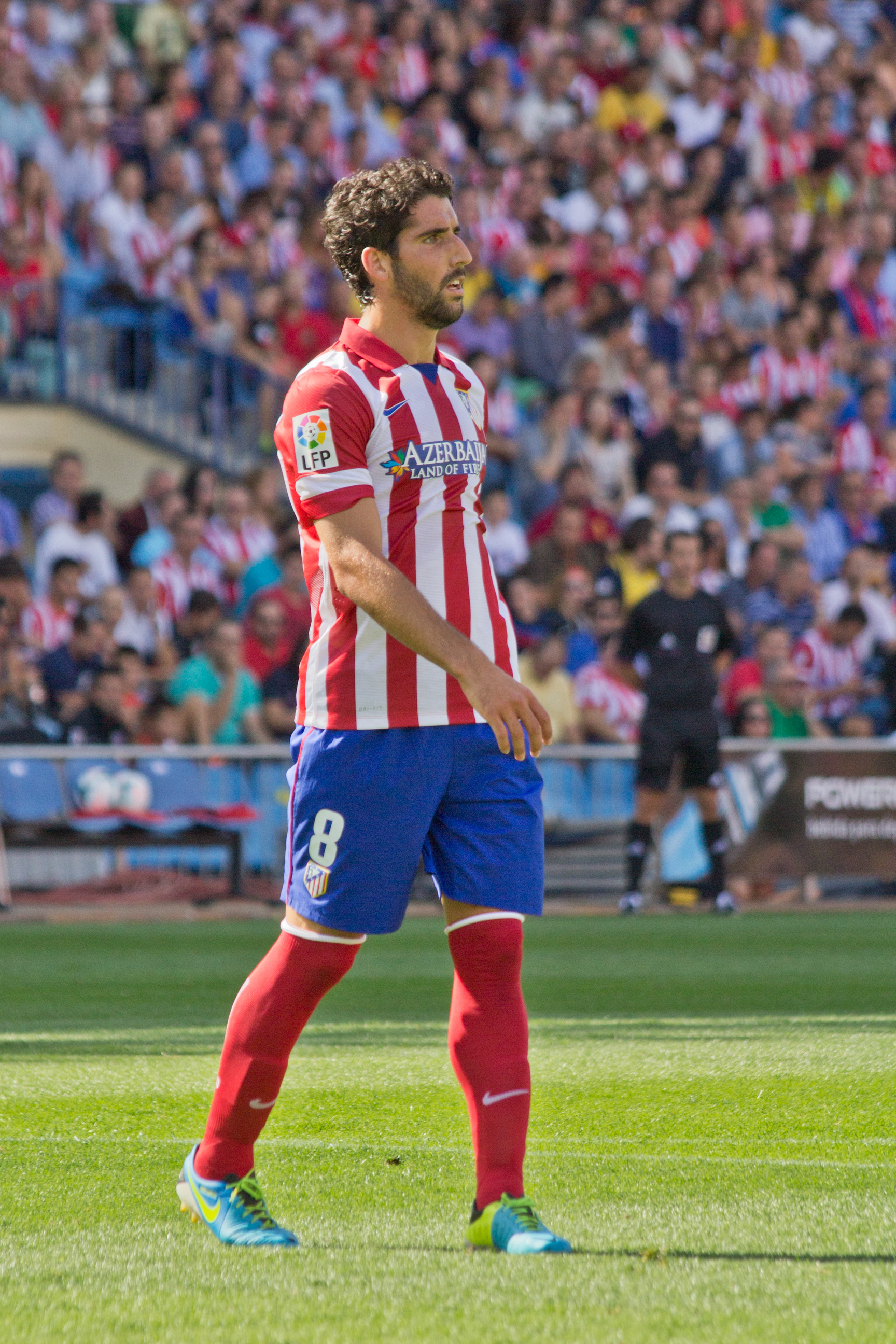 Raúl García, footballer of Atlético de Madrid.